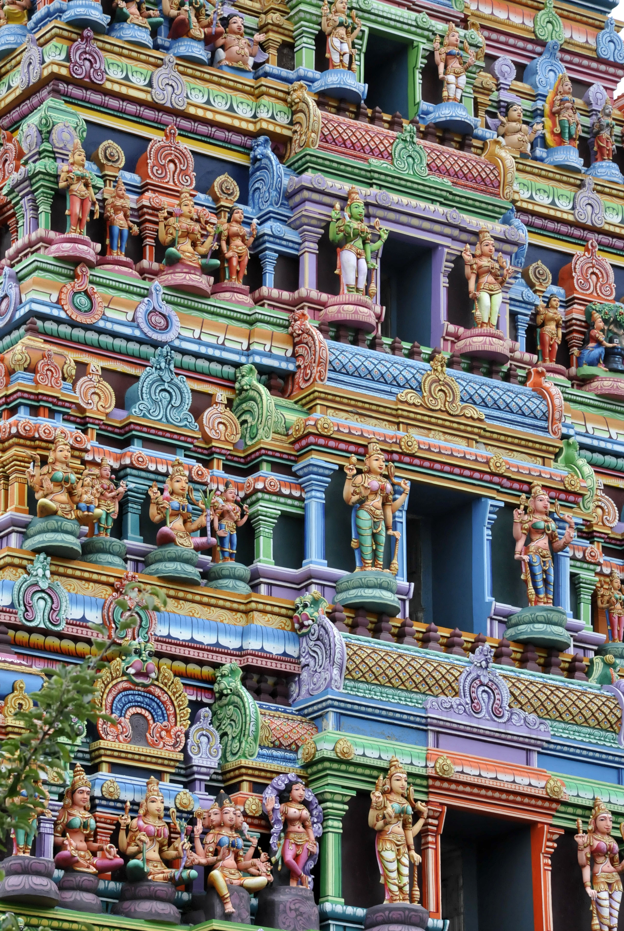 Sri-Kamadchi-Ampal-Tempel, detail